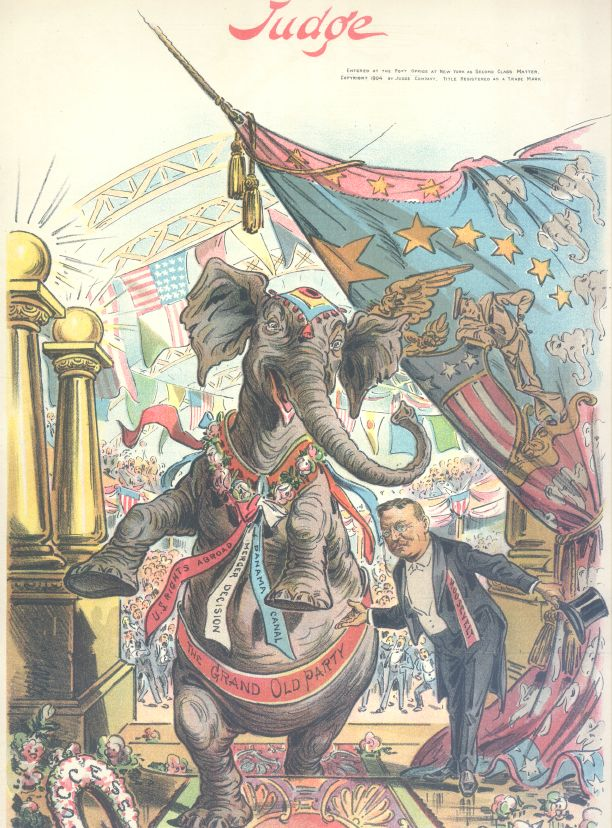 Republican presidential nominee Theodore Roosevelt depicted as elephant trainer. Reference to Republican Party victory in 1904 election.